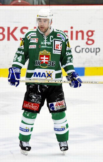 zigo palffy